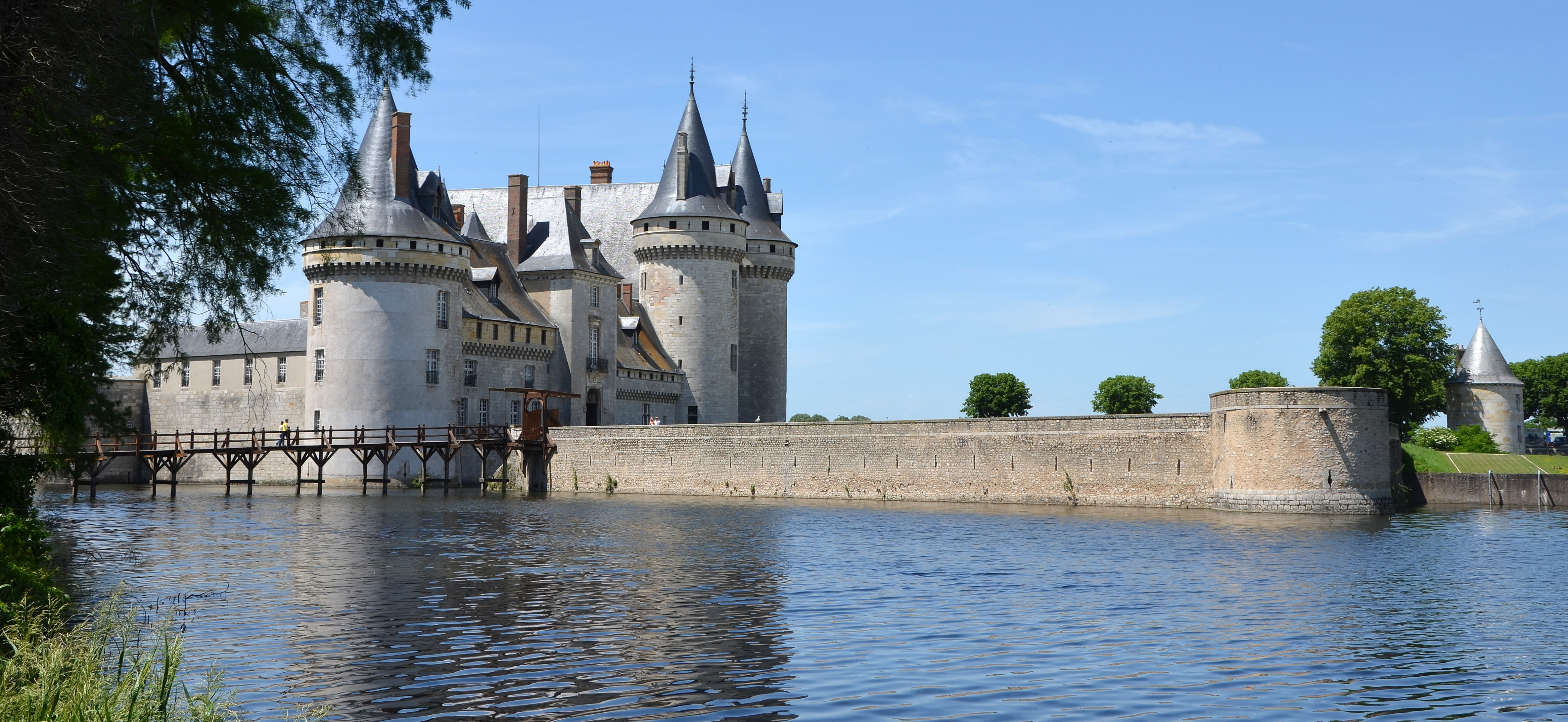 Castle of Sully sur Loire, Loiret, France